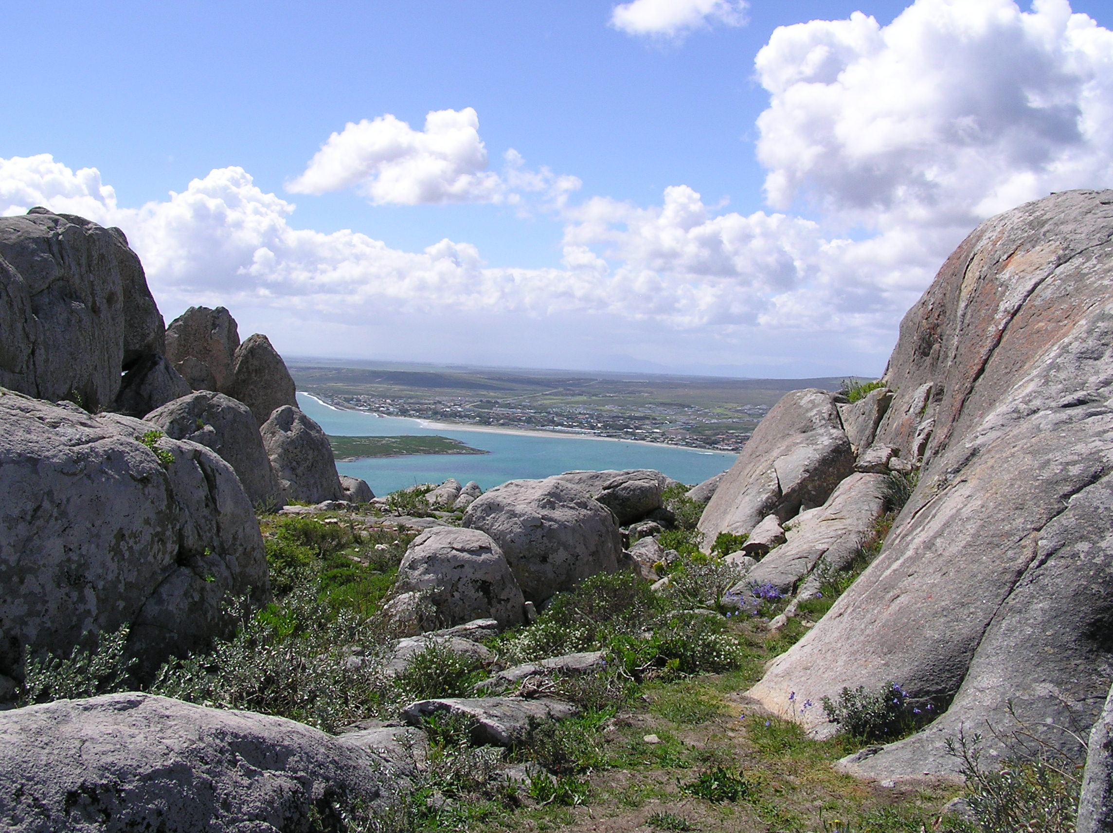 West Coast N.P., Western Cape, South Africa